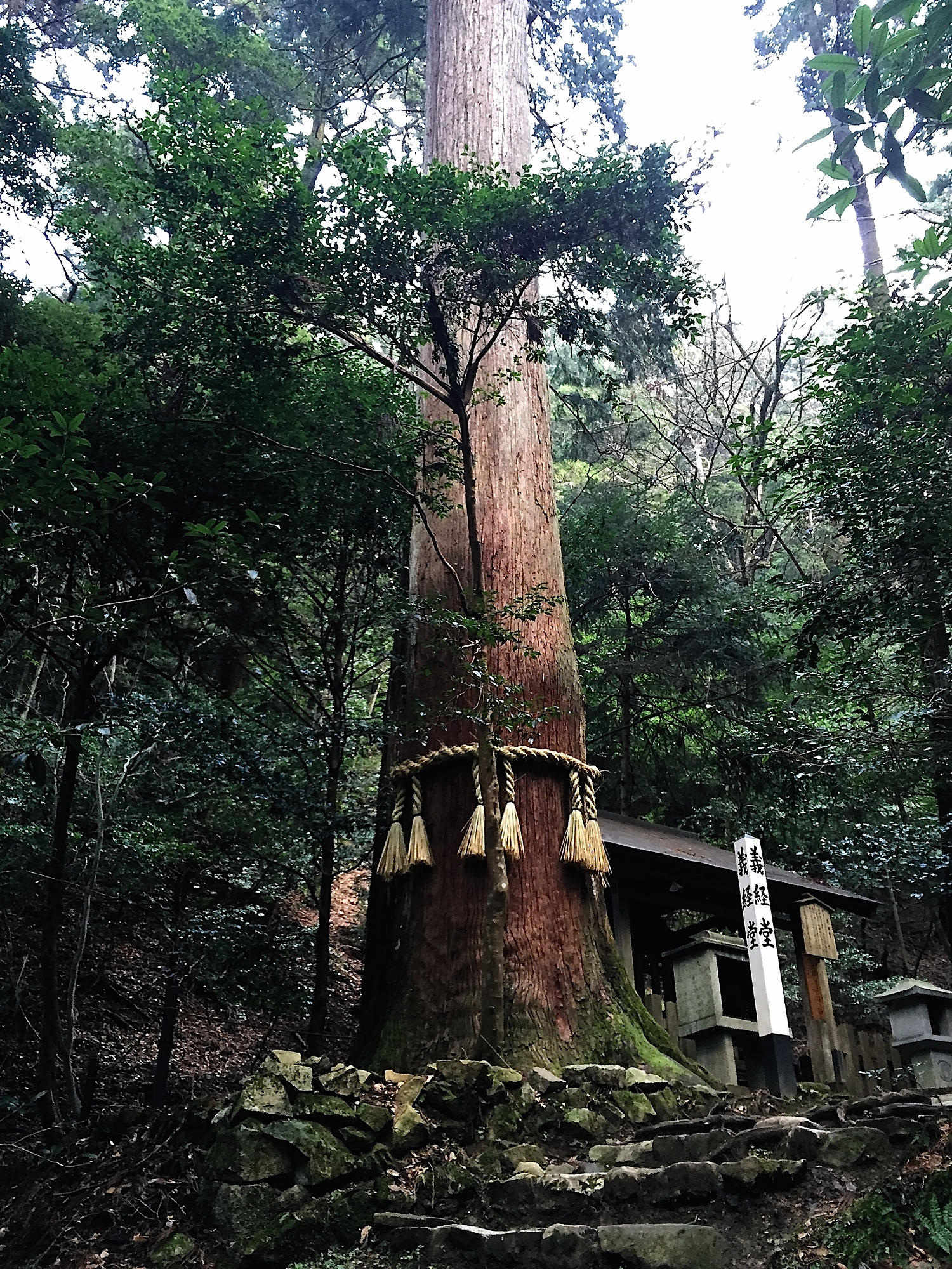 Gikeido at Kurama temple in Kyoto